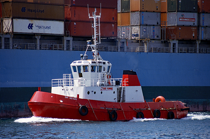 Red Funnel tug Sir Bevois at Southampton Docks shepherding a container ship down river. Other names: Svitzer Bevois, Beaver. Information about Sir Bevois (tug) may be found at IMO 8414166.A ship can change name and flag state through time, but the IMO number remains the same through the hull's entire lifetime. As a result, it can be useful to identify a ship by using the IMO number. Scanned from a Fujichrome 35mm slide.